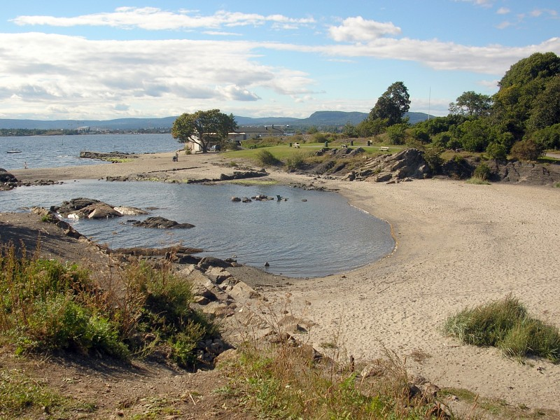 Huk, Oslo – bay with beach